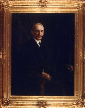 This portrait of William Rufus Day was presented to the United States Court of Appeals for the Sixth Circuit by his sons: William L. Day, Luther Day, Rufus S. Day, and Stephen A. Day on June 18, 1926.